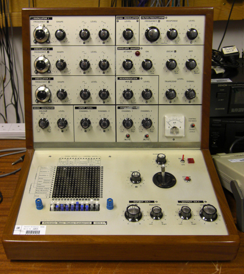 EMS VCS 3 synthesizer